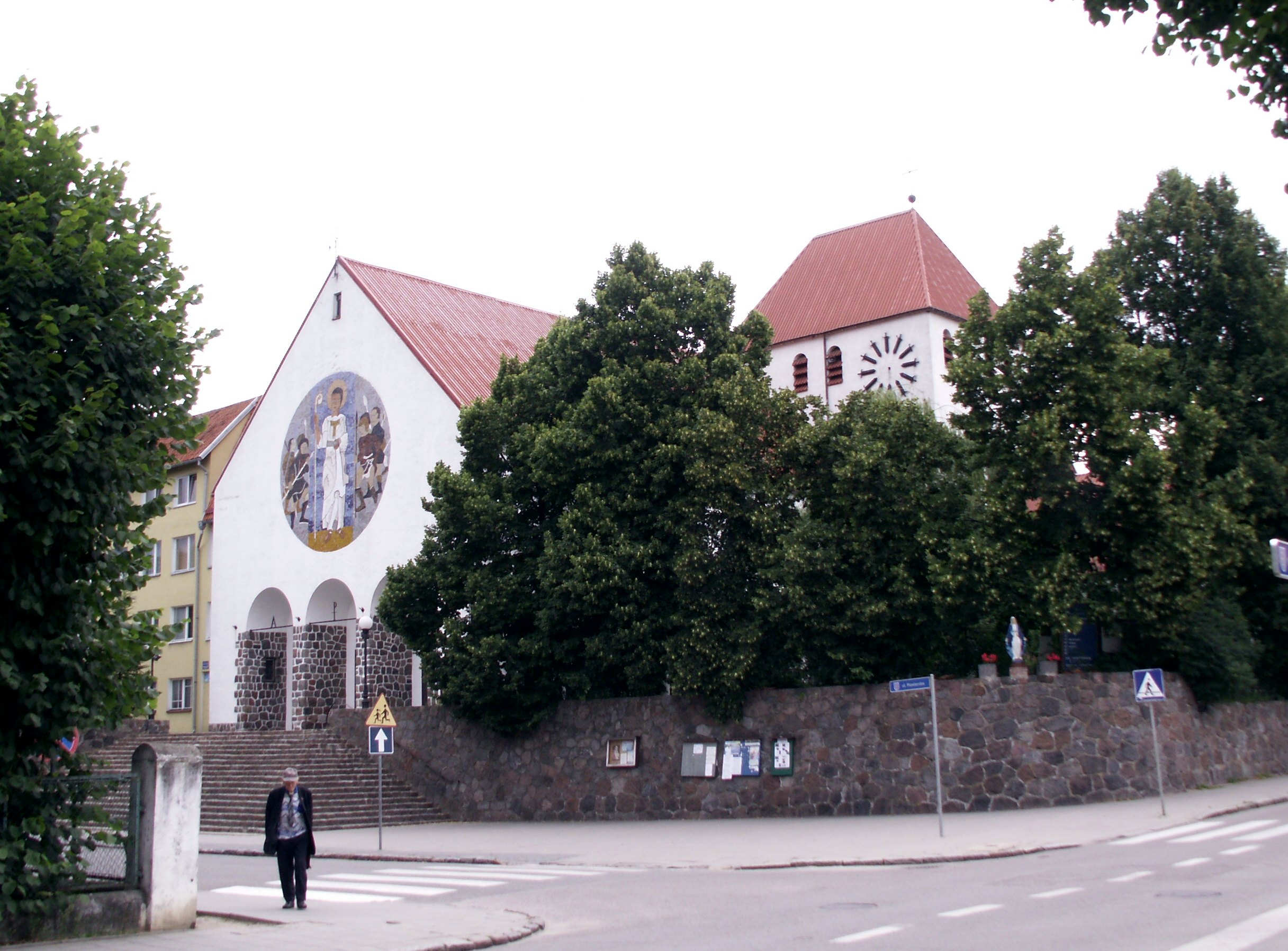 Giżycko, Poland